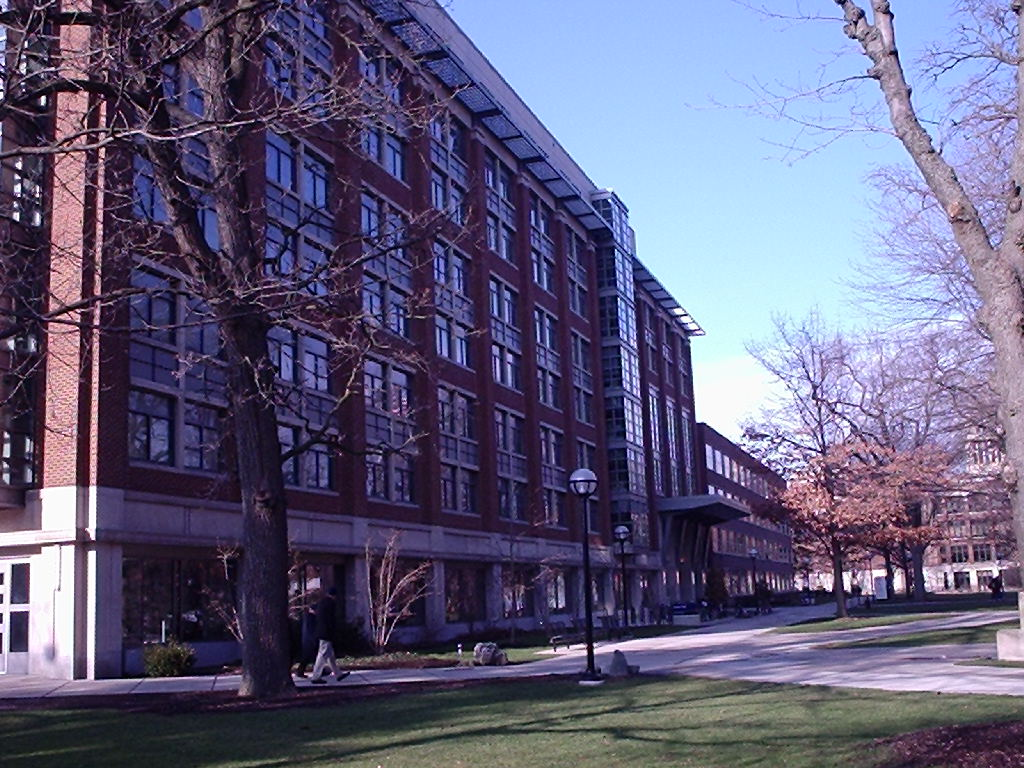 Haven Hall (left) and Mason Hall (right) at the University of Michigan. Taken January 8, 2006.